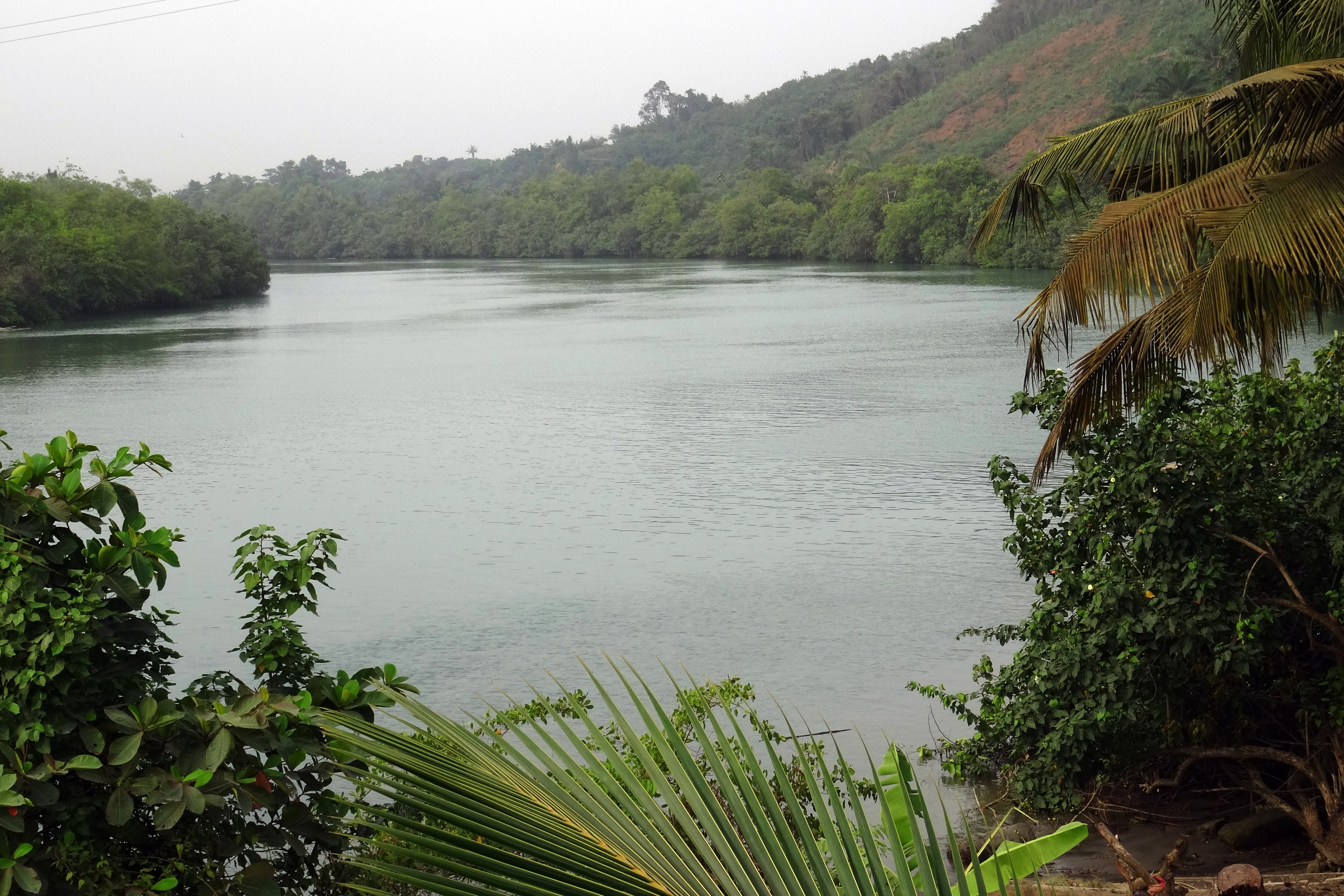 Looking north from the southern end of the Ankobra River in the Western Region of Ghana close to the estuary.